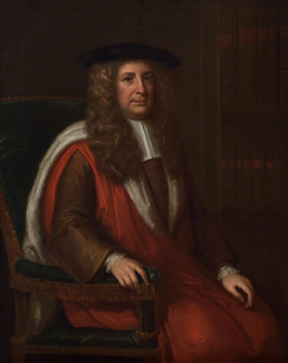 Robert Brady (1627-1700), Master of Gonville & Caius College, Cambridge